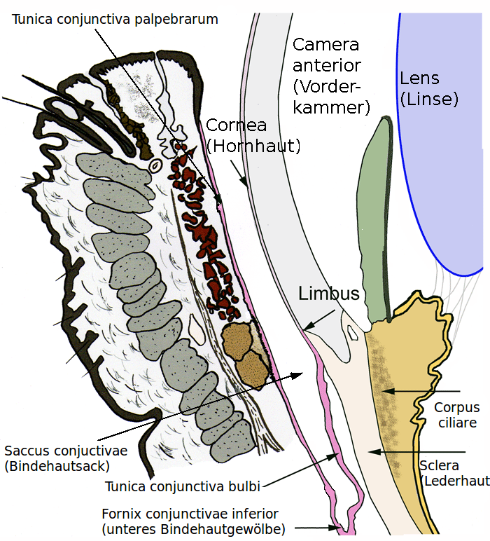 Advanced German Version of the Original Picture File:Spojivka schema-800x800.gif